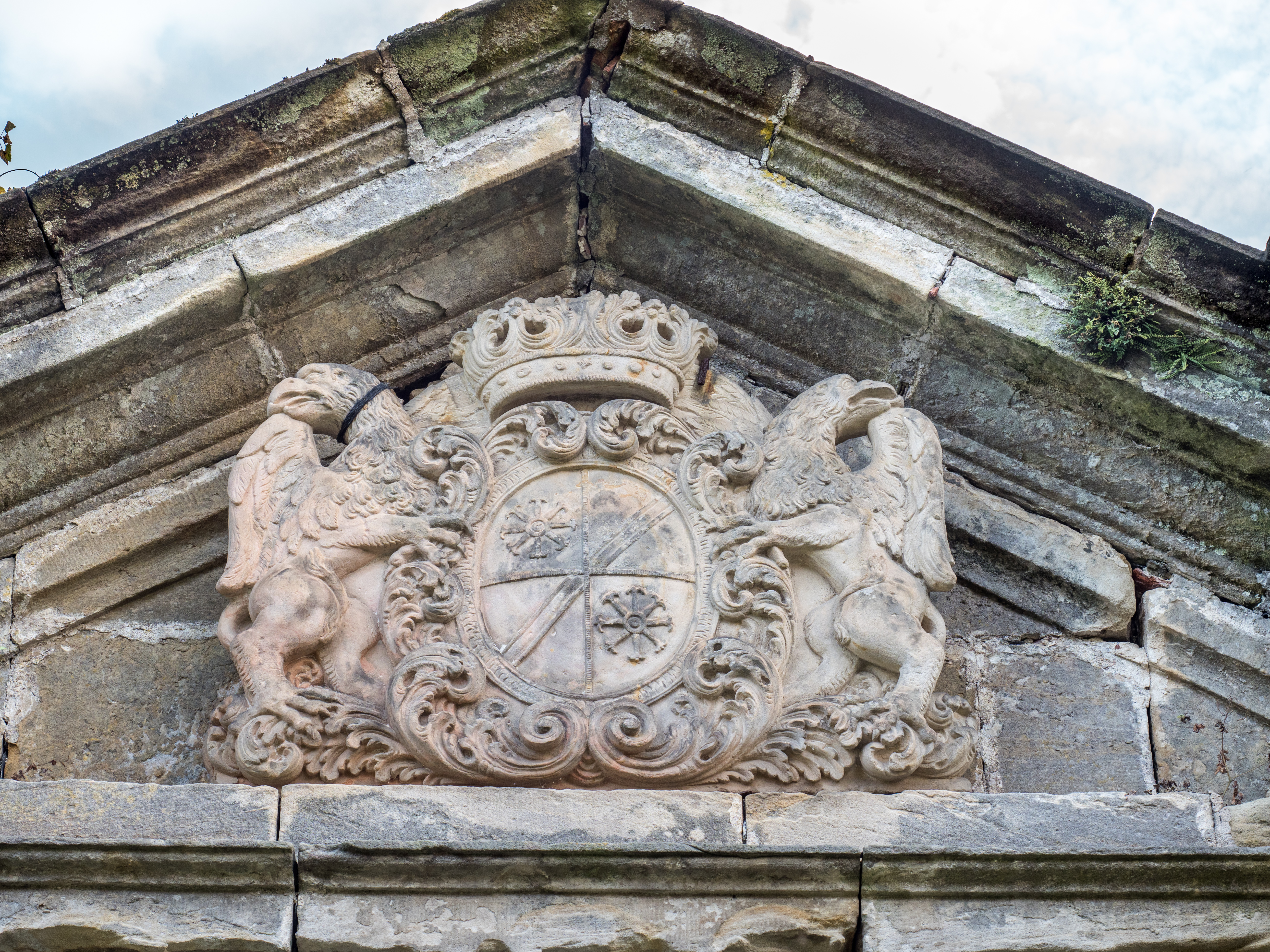 Coats of arms above the entrance gate of Gereuth Castle